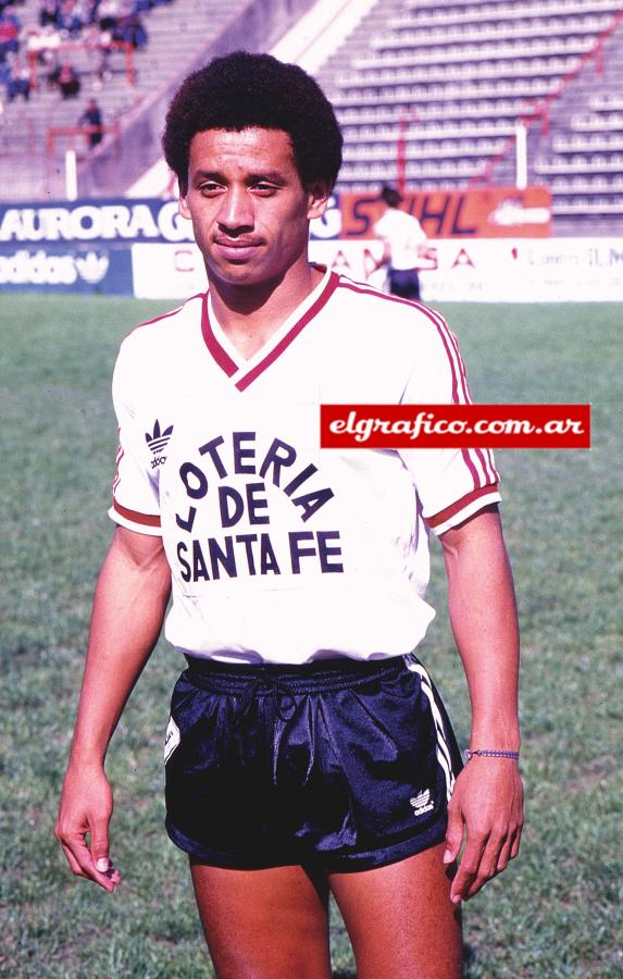 Colombian player Anthony de Avila in Unión de Santa Fe, Argentina.